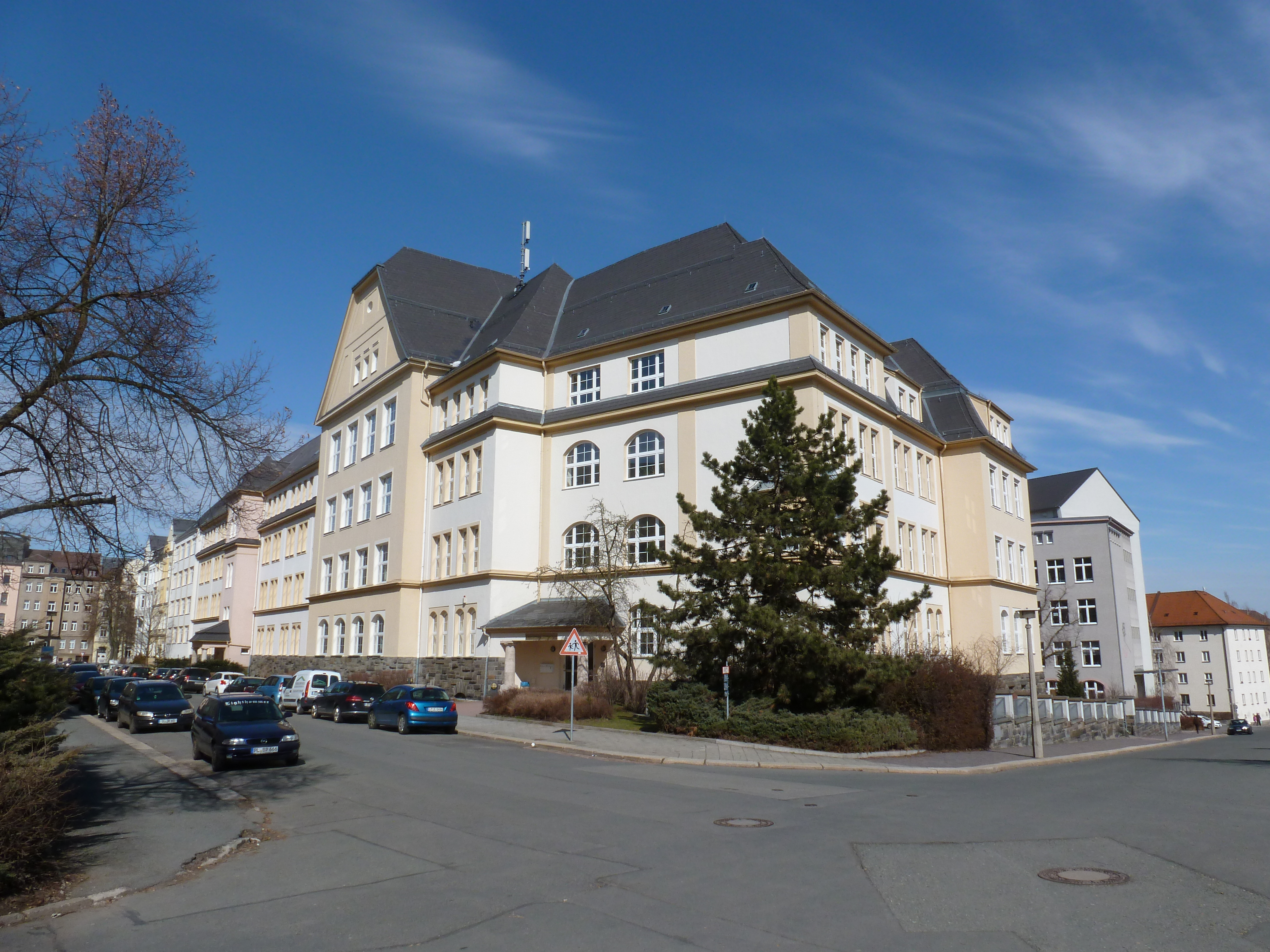 Diesterweg gymnasium Plauen, corner Diesterwegstraße / Comeniusstraße - view of the main entrance